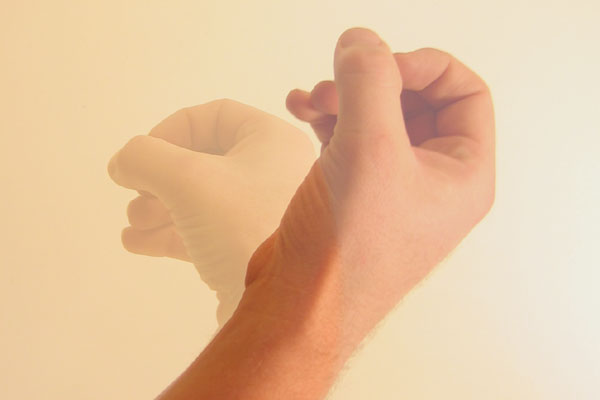 The wanker gesture - fingers and thumb in circle downward motion